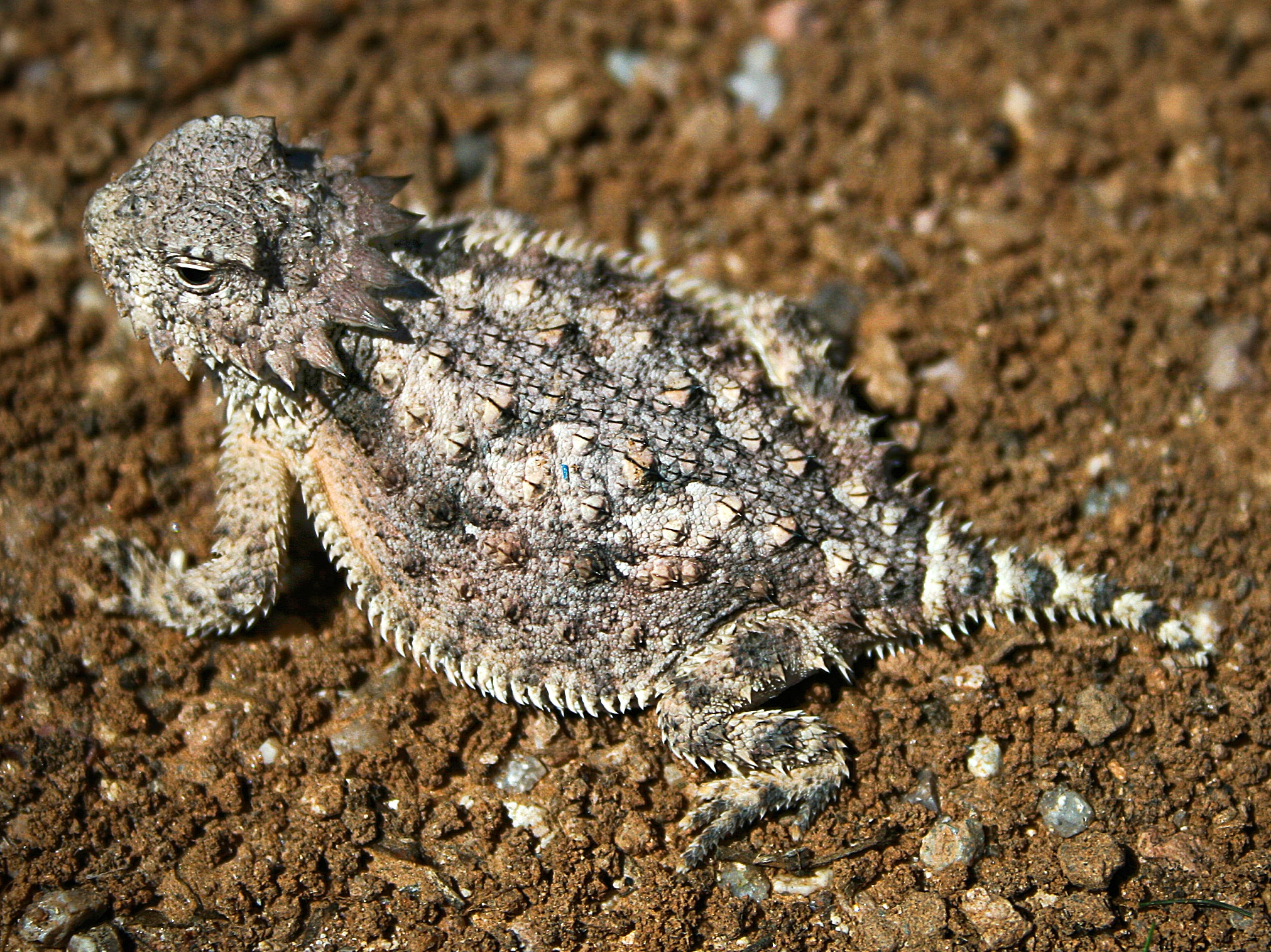 Photo of the Regal Horned Lizard Phrynosoma solare taken in Apache Junction, Arizona